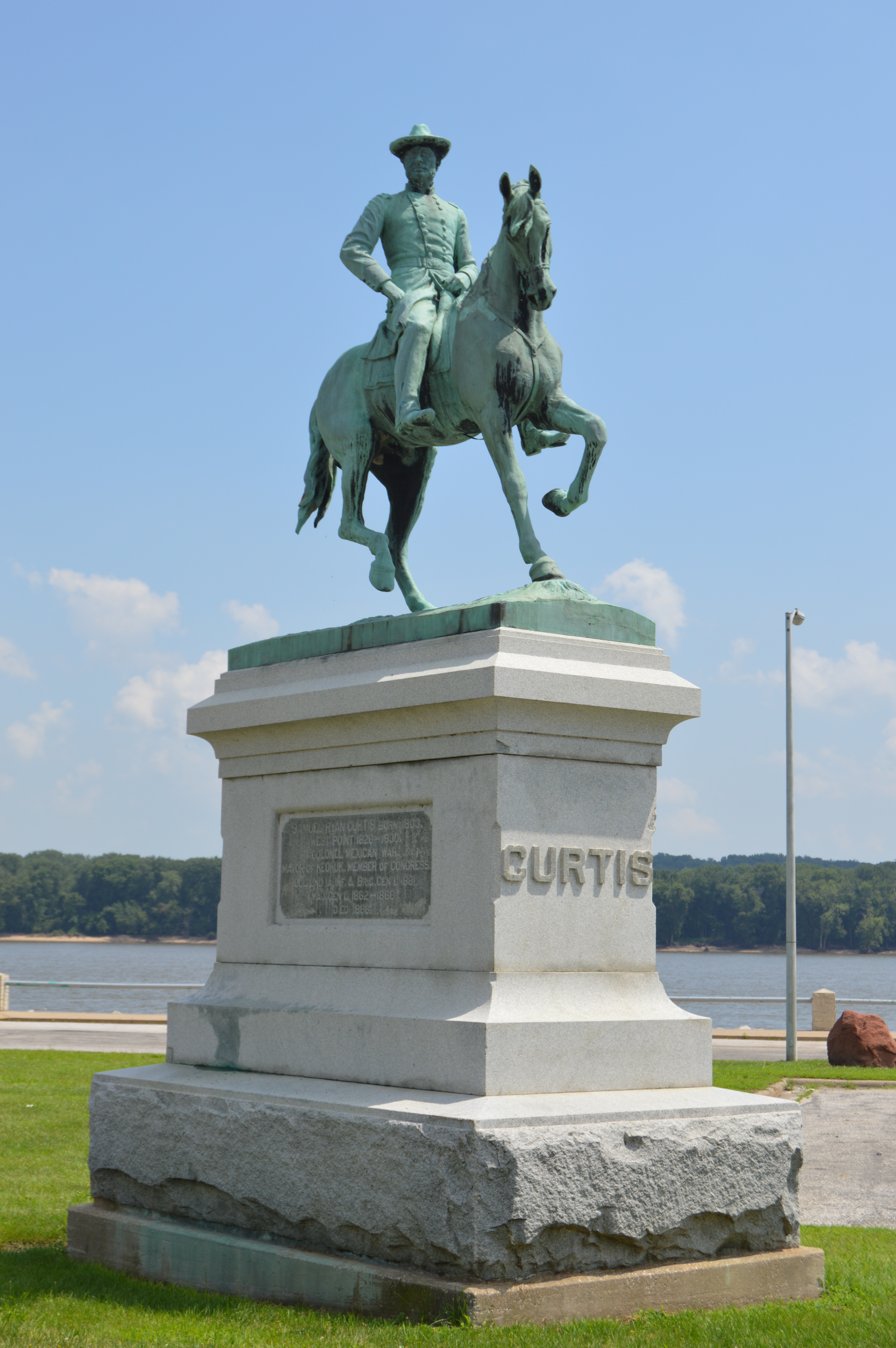 Equestrian statue of Samuel Ryan Curtis by Carl Rohl-Smith, placed 1898 on the riverfront (now in Victory Park) in Keokuk, Iowa, United States.